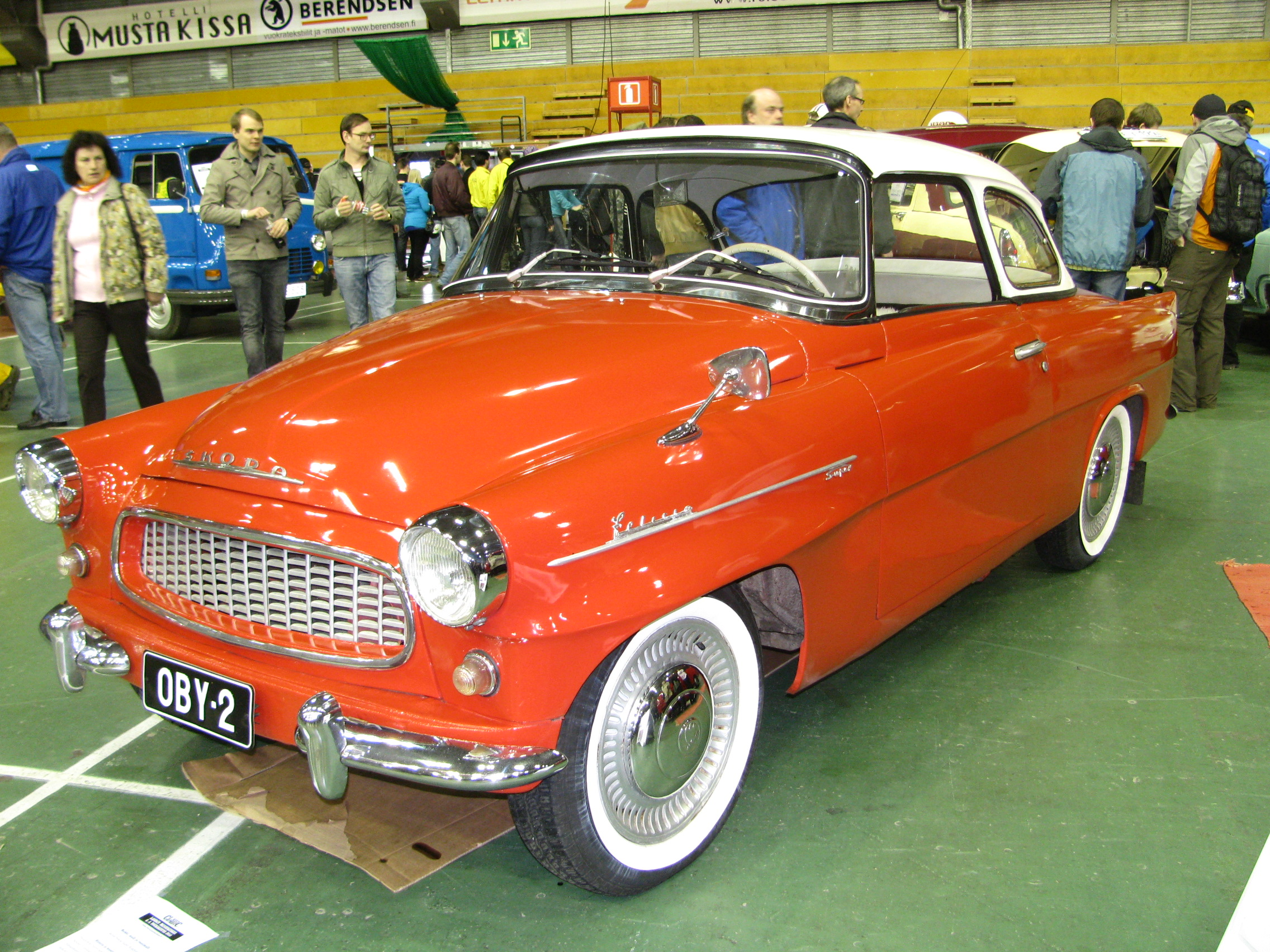 Škoda Felicia, Classic Motor Show in Lahti, Finland.